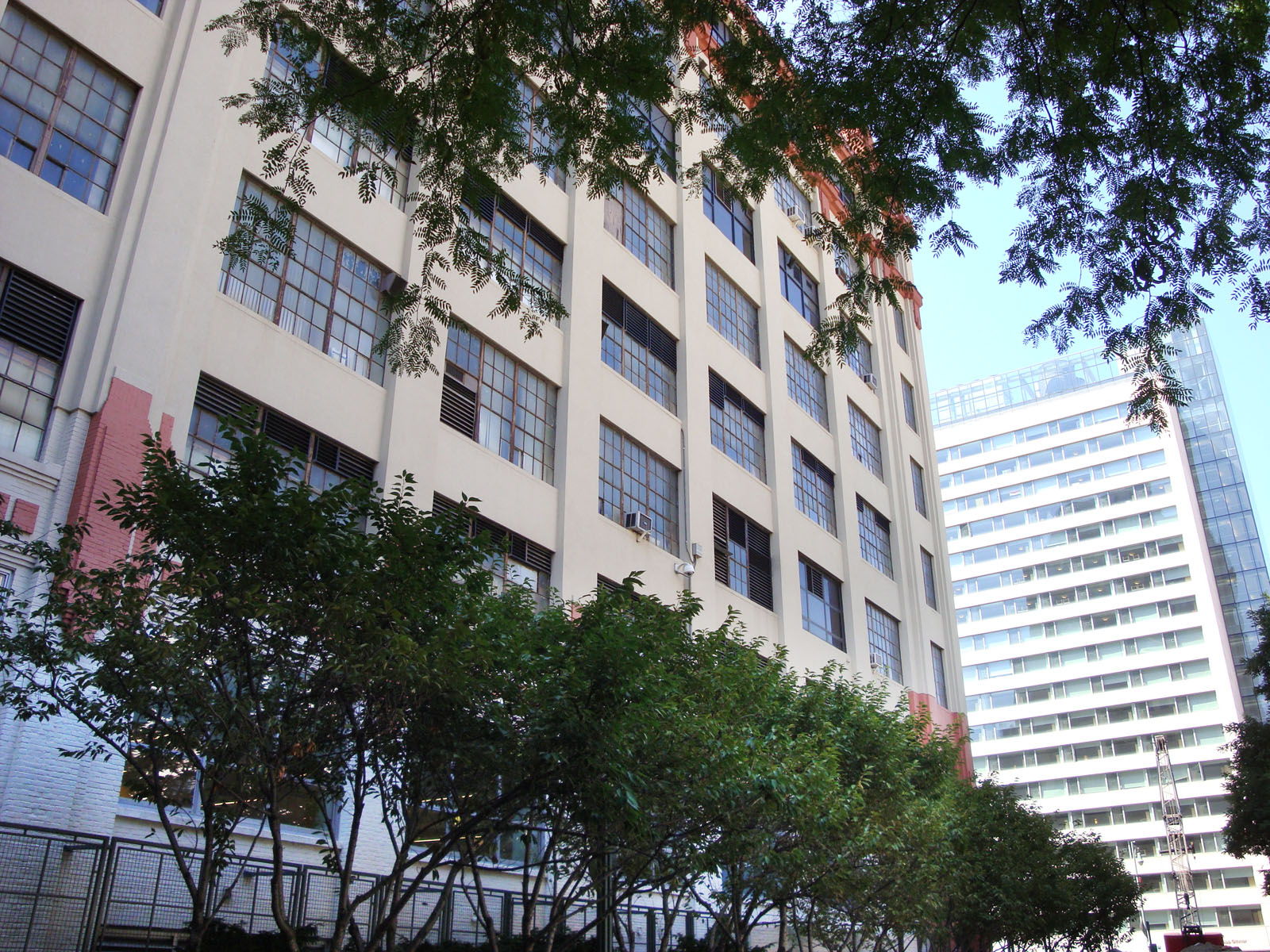 Polytechnic School of Engineering Roger's Hall (Main academic building, with the Othmer dorm building in the backgound)